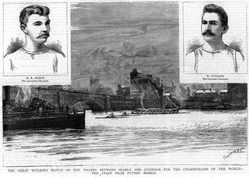 "The Great Sculling Match on the Thames between Searle and O'Connor for the Championship of the World - The Start from Putney Bridge" - B&W engraving - Illustrated London News - September 1889